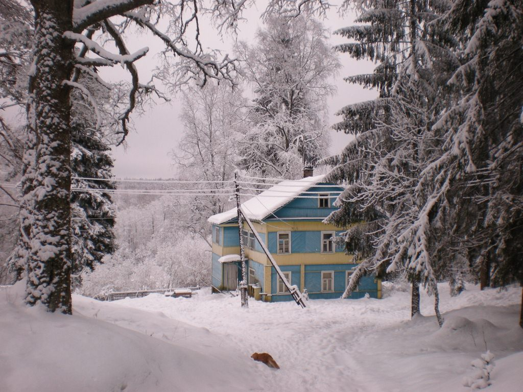 Zelezo 6